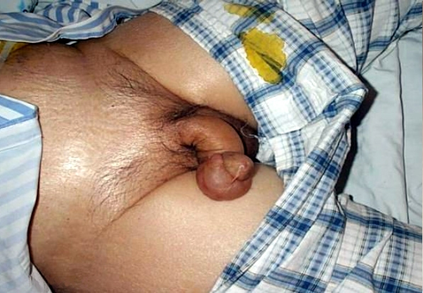 Interleukin-11 (IL-11) caused penile edema, due to capillary leak syndrome.